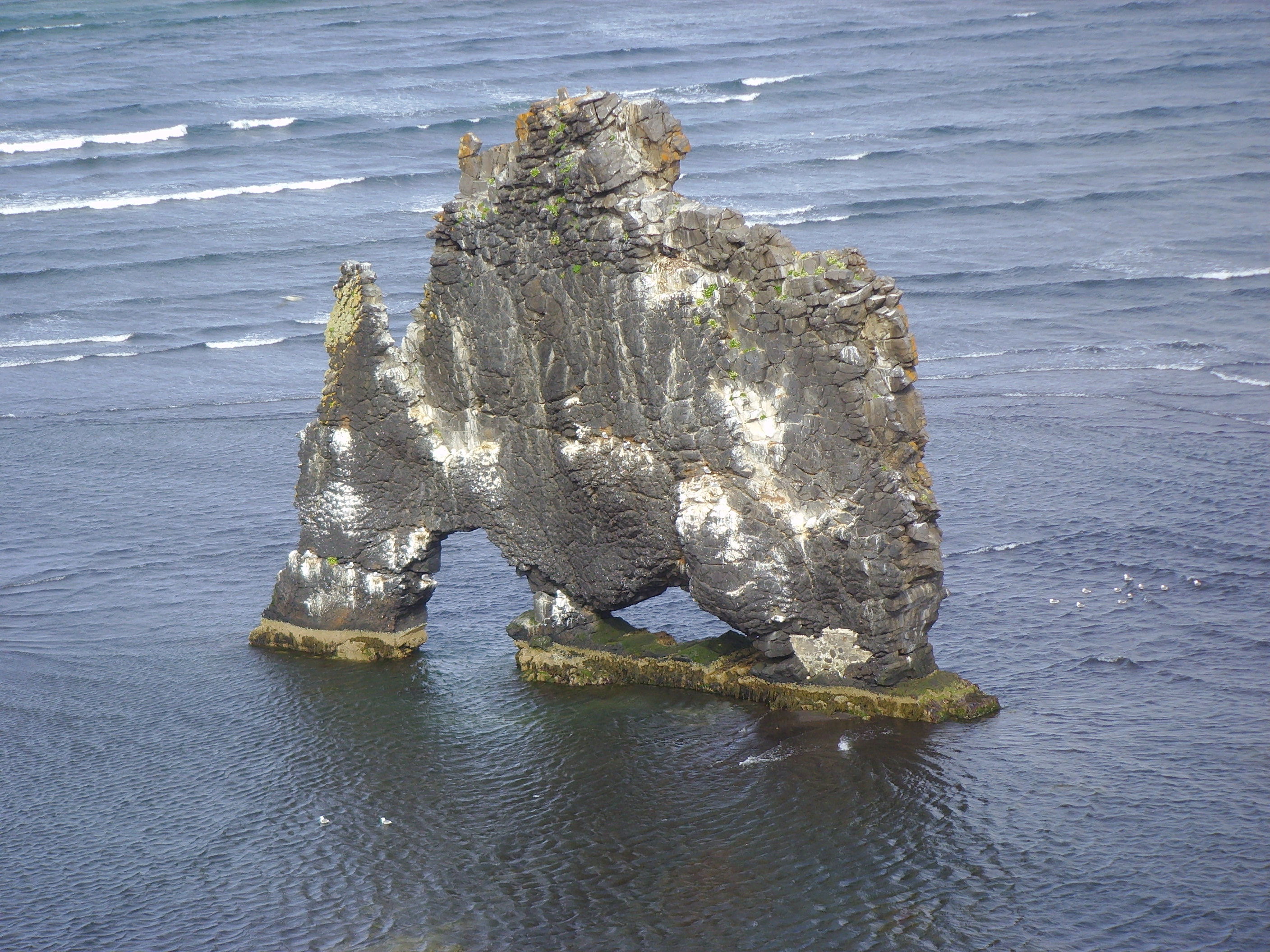 Hvítserkur, Húnafjörður, Iceland